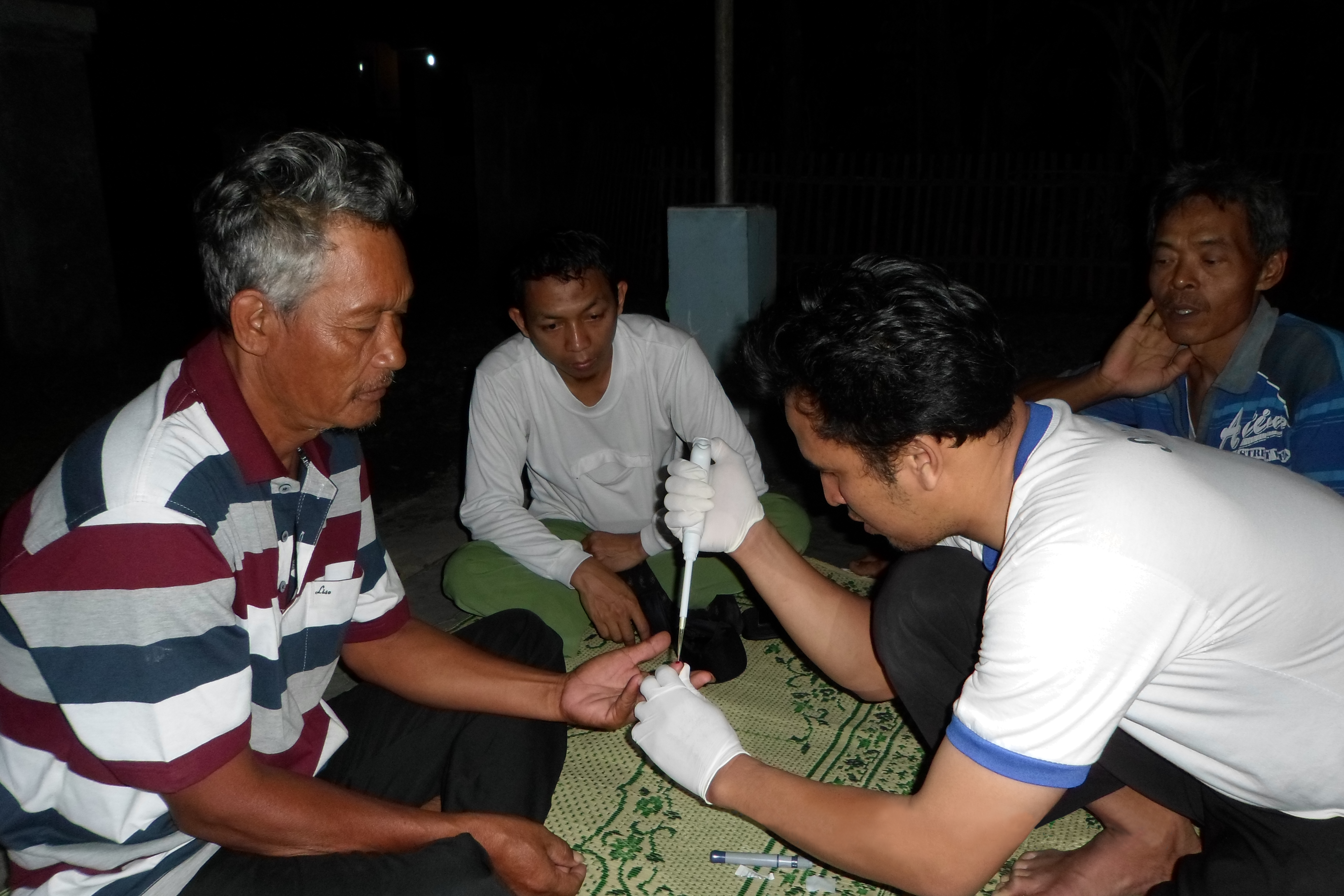 This image was captured on July 6, 2014, during the investigation of a leptospirosis outbreak in Ngemplak, Boyolali, Indonesia, whereupon, Indonesian Field Epidemiology Training Program (FETP) residents worked with the Boyolali District Health Department, and the Center for Environmental Health Engineering and Disease Control of Yogyakarta Province, to screen residents of Ngemplak for leptospirosis. In this particular view, a FETP technician was pipetting a sample of blood from the tip of a man’s finger, which would later be tested for the presence of Leptospira sp. bacteria.